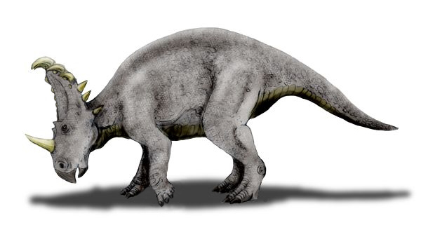 Sinoceratops